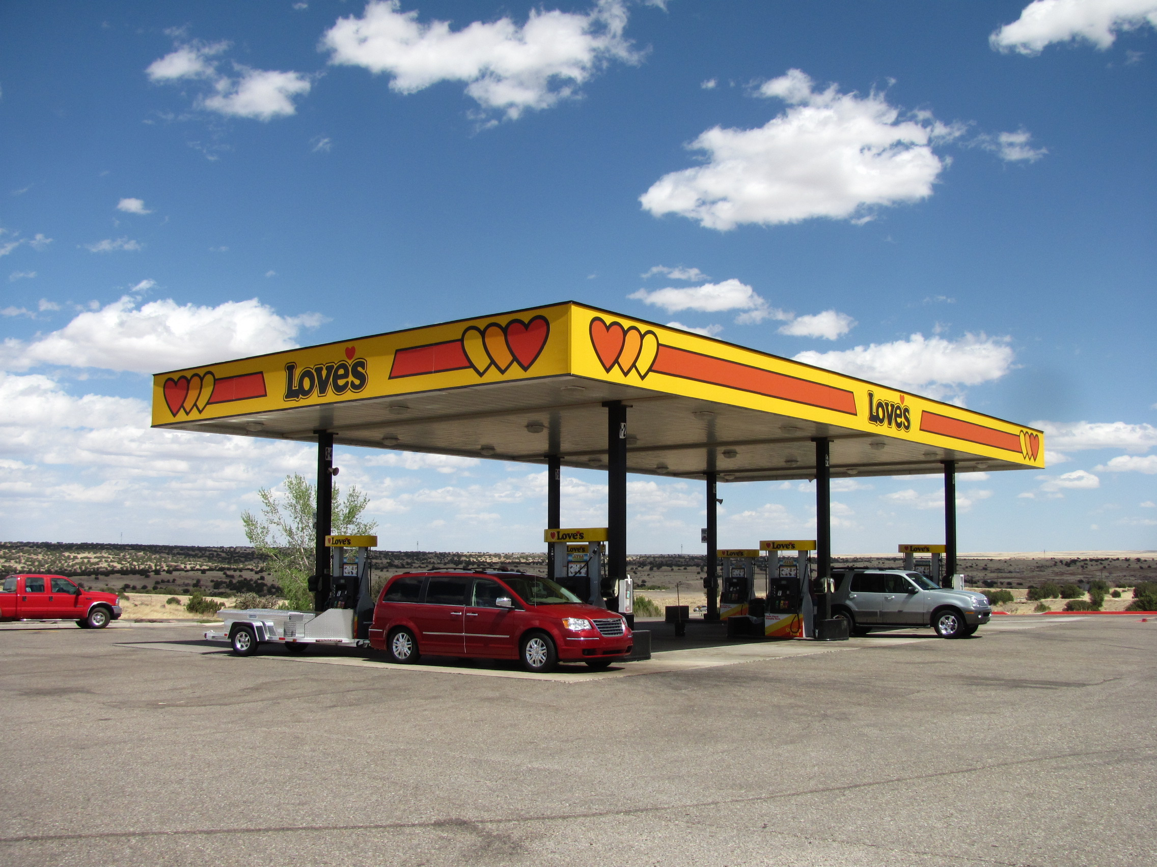 Love's Travel Plaza on I-40, Eastern New Mexico